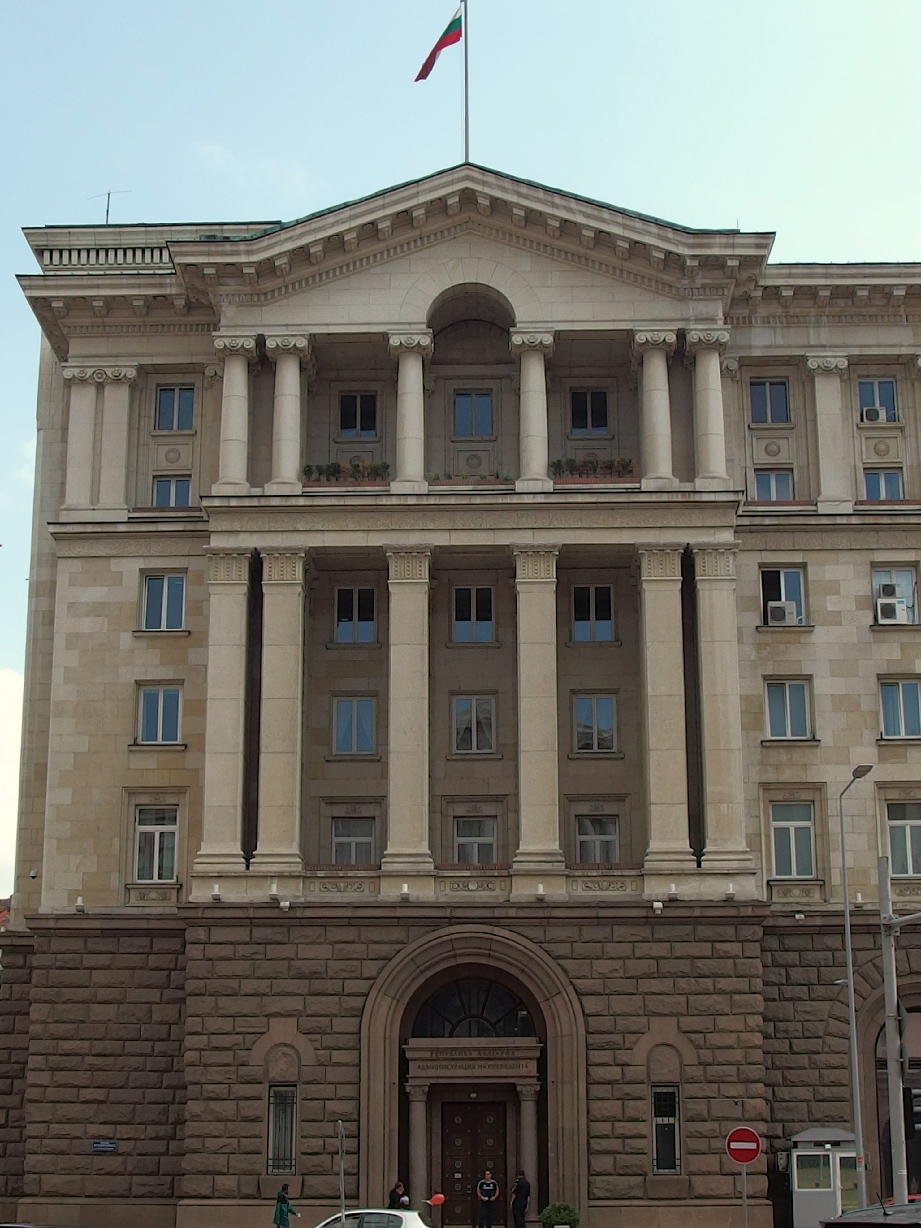 2014-06-14 in Sofia.